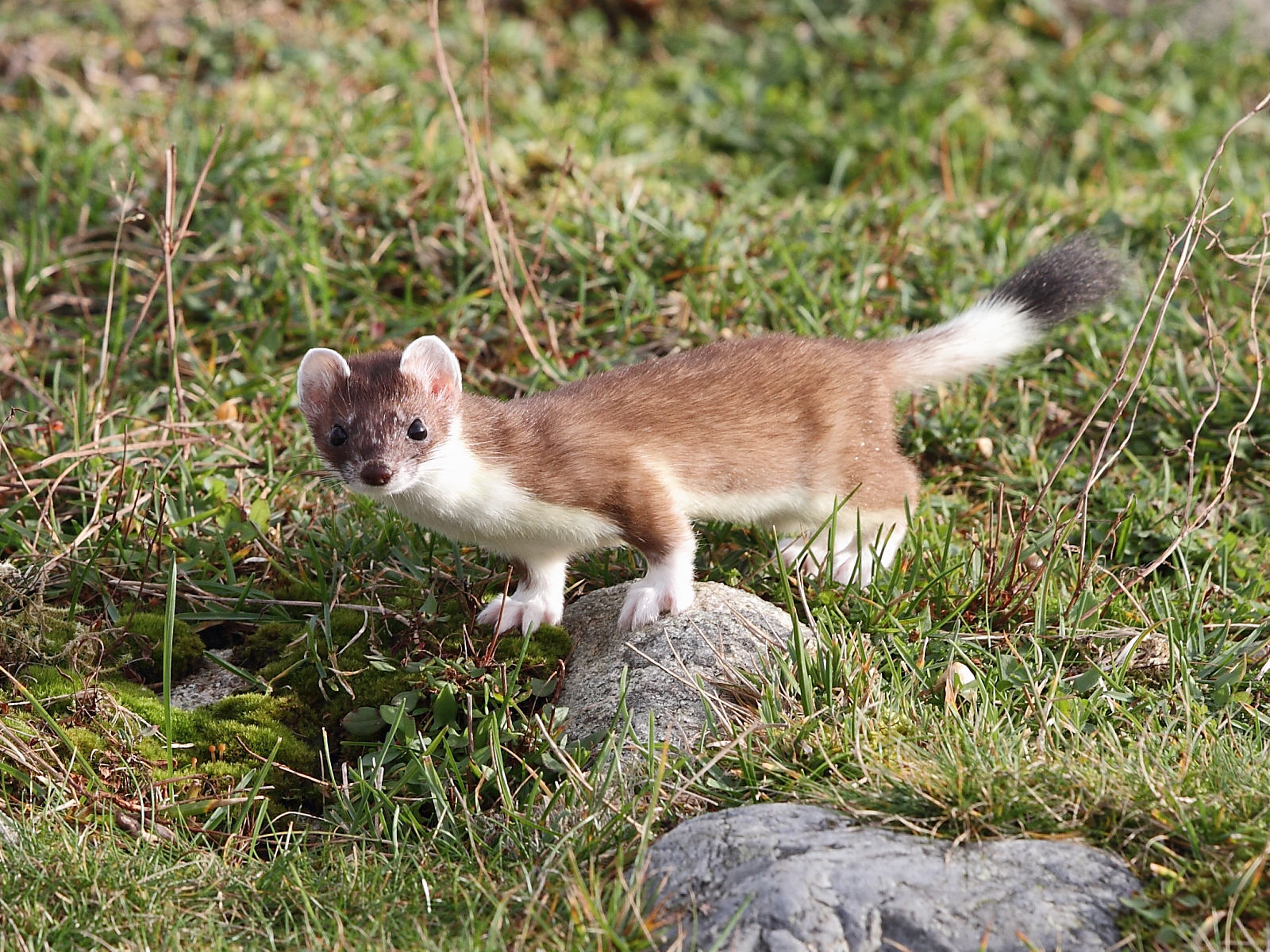 Stoat, nominate subspecies Mustela erminea erminea. Steinodden, Lista, Norway.